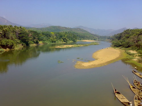 Chaliyar River